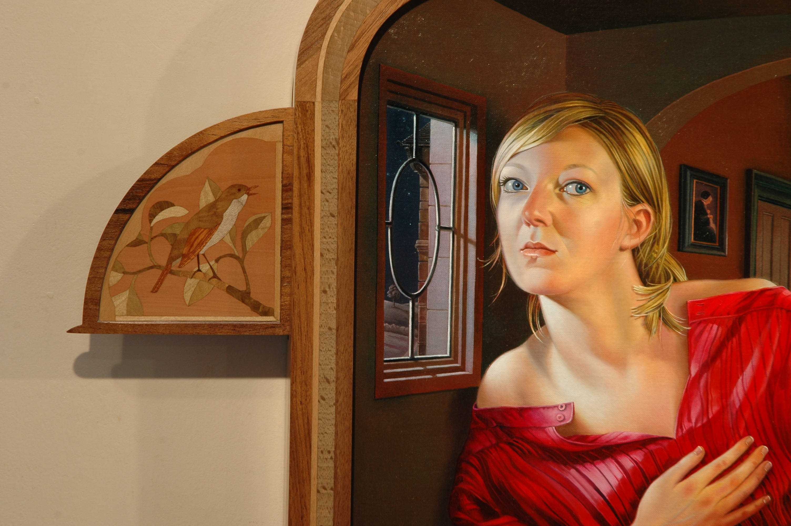 Detail of artist Kit Williams' Macaroon Painting showing his elaborate marquetry in both the frame and a pull-out pivoting panel featuring a lark.